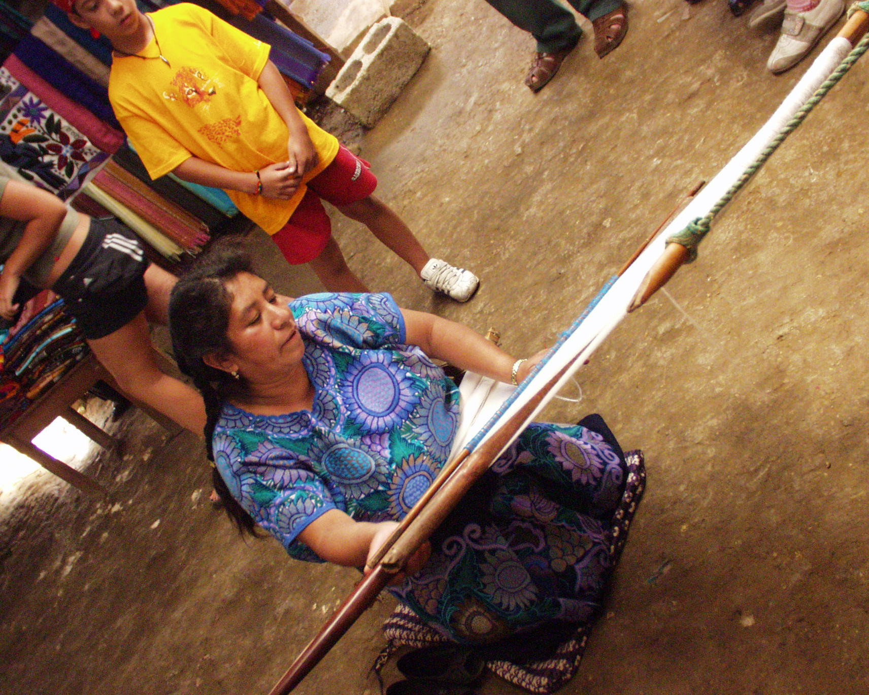 Handweaving in Zinacantán, Chiapas, Mexico